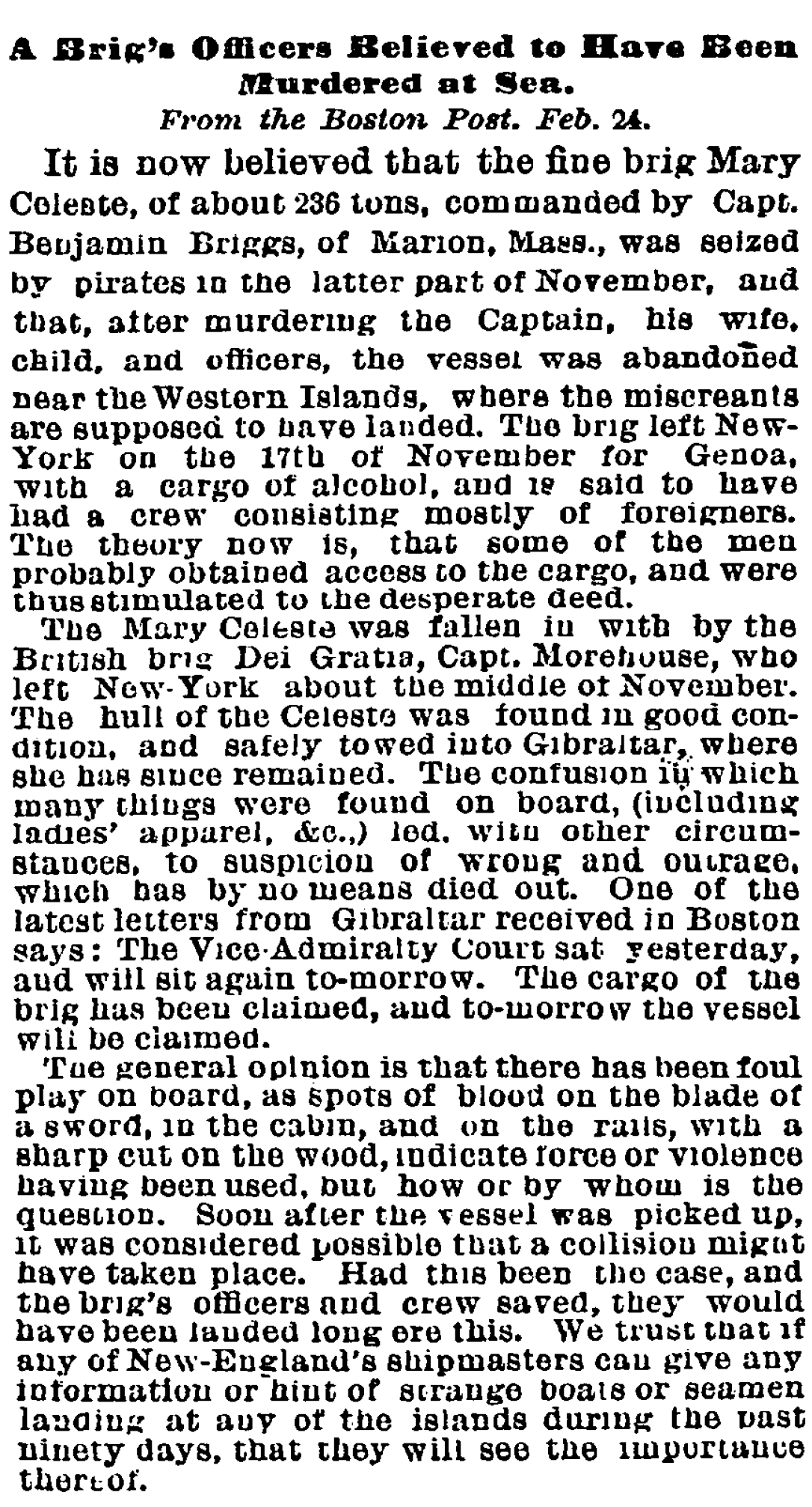 "A Brig's Officers Believed to Have Been Murdered at Sea.", New York Times, Wednesday, February 26, 1873, page 2, citing the Boston Post of February 24, 1873. Retrieved on June 19, 2008. First sentence: "It is now believed that the fine brig Mary Celeste, of about 236 tons, commanded by Capt. Benjamin Briggs, of Marion, Mass., was seized by pirates in the latter part of November, and that, after murdering the Captain, his wife, child, and officers, the vessel was abandoned near the Western Islands, where the miscreants are supposed to have landed."